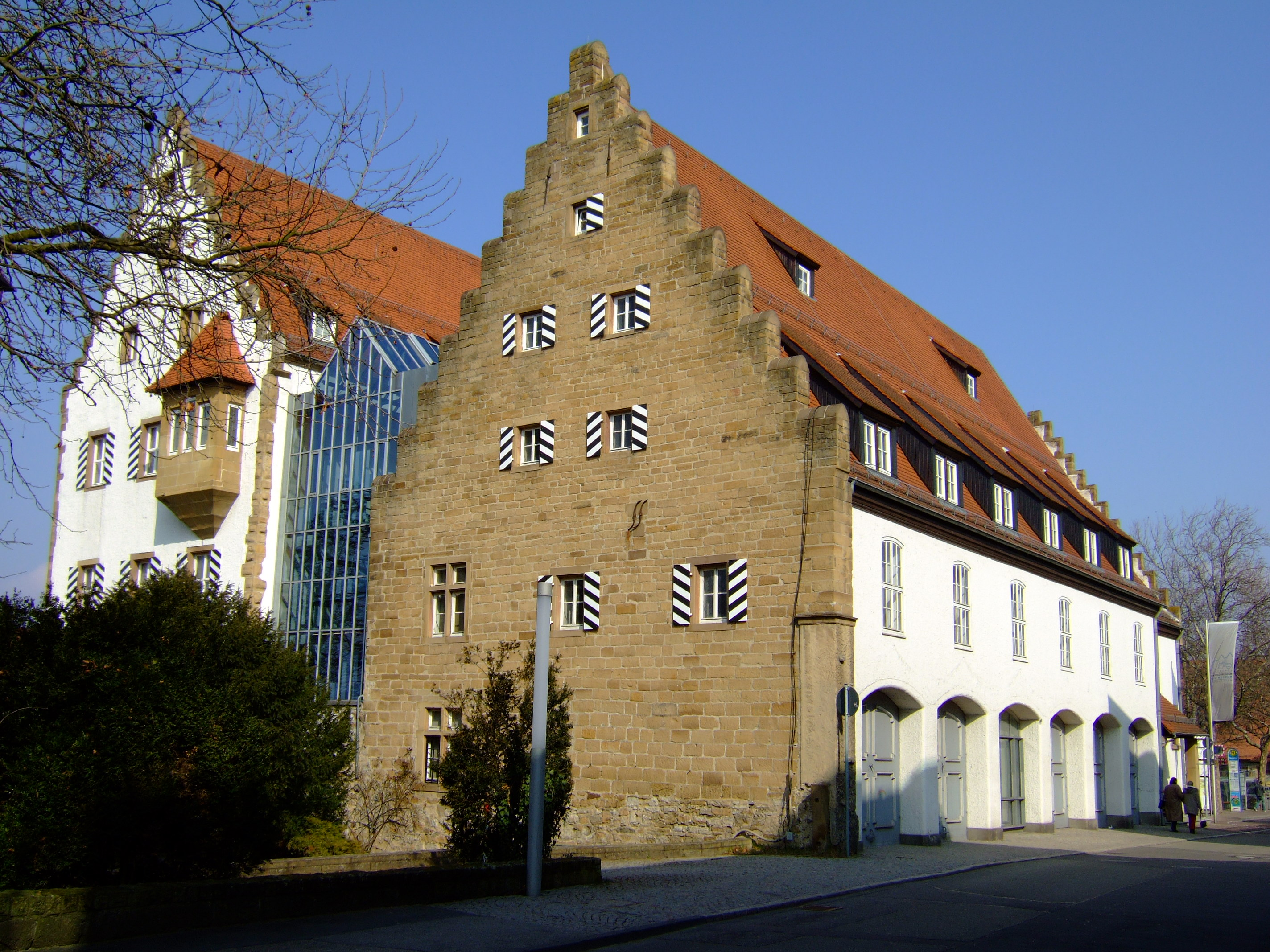 Castle Of the City Neckarsulm, right the so called "Bandhaus"